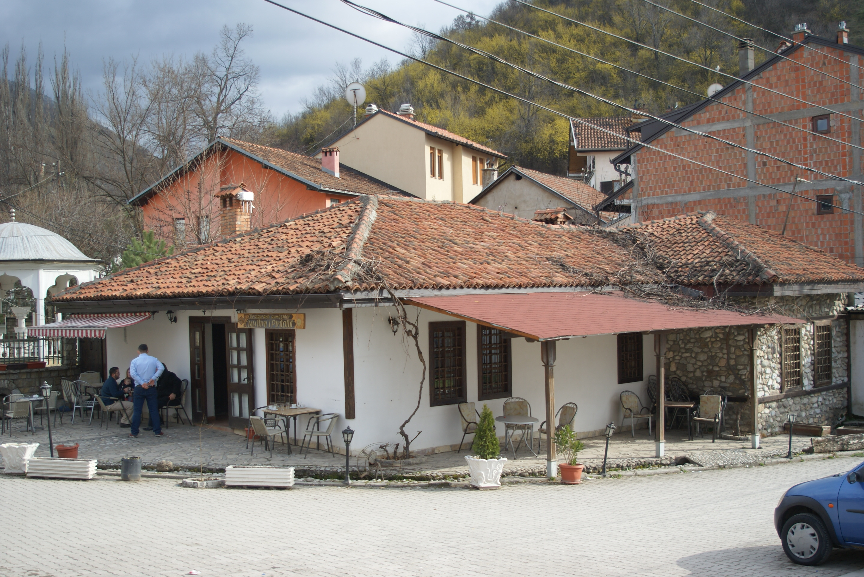 The Milling of Shotman was built in 1641 and the oldest Milling (mill?) in Prizren. Listed Now, restaurantShqip: Mulliri i Shotmanit